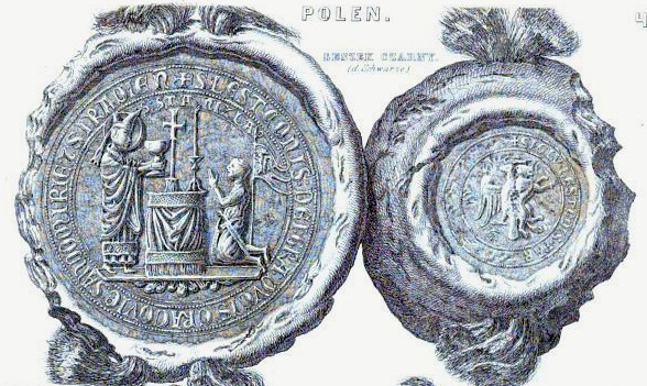 Leszek II of Poland